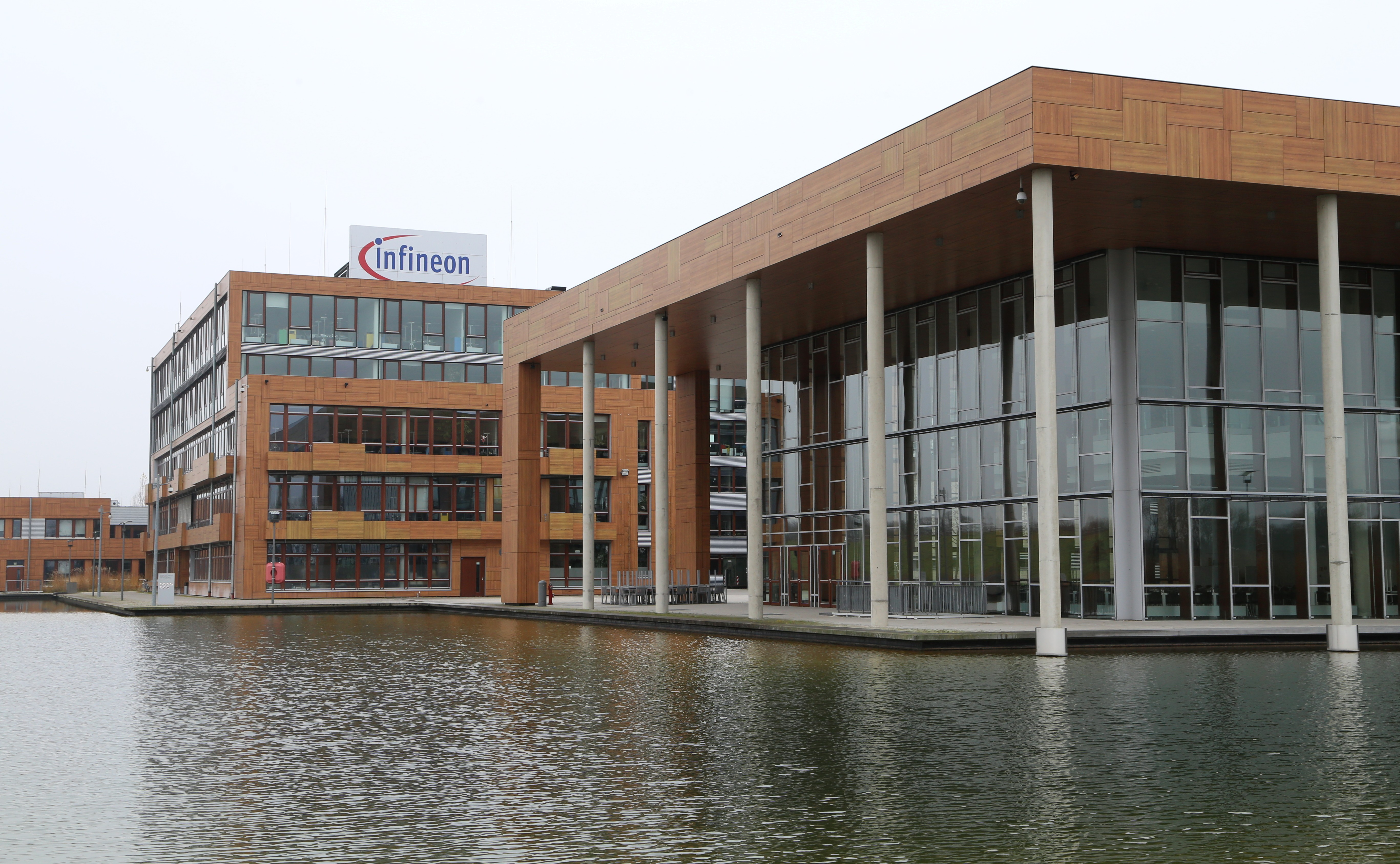 Campeon, Office and Labour buildings of Infineon Technologies AG, Neubiberg